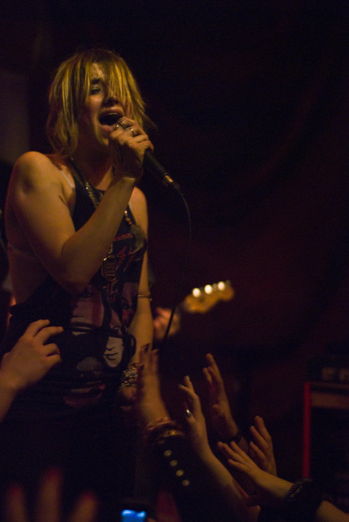 Juliet Simms performing in Philadelphia, PA.